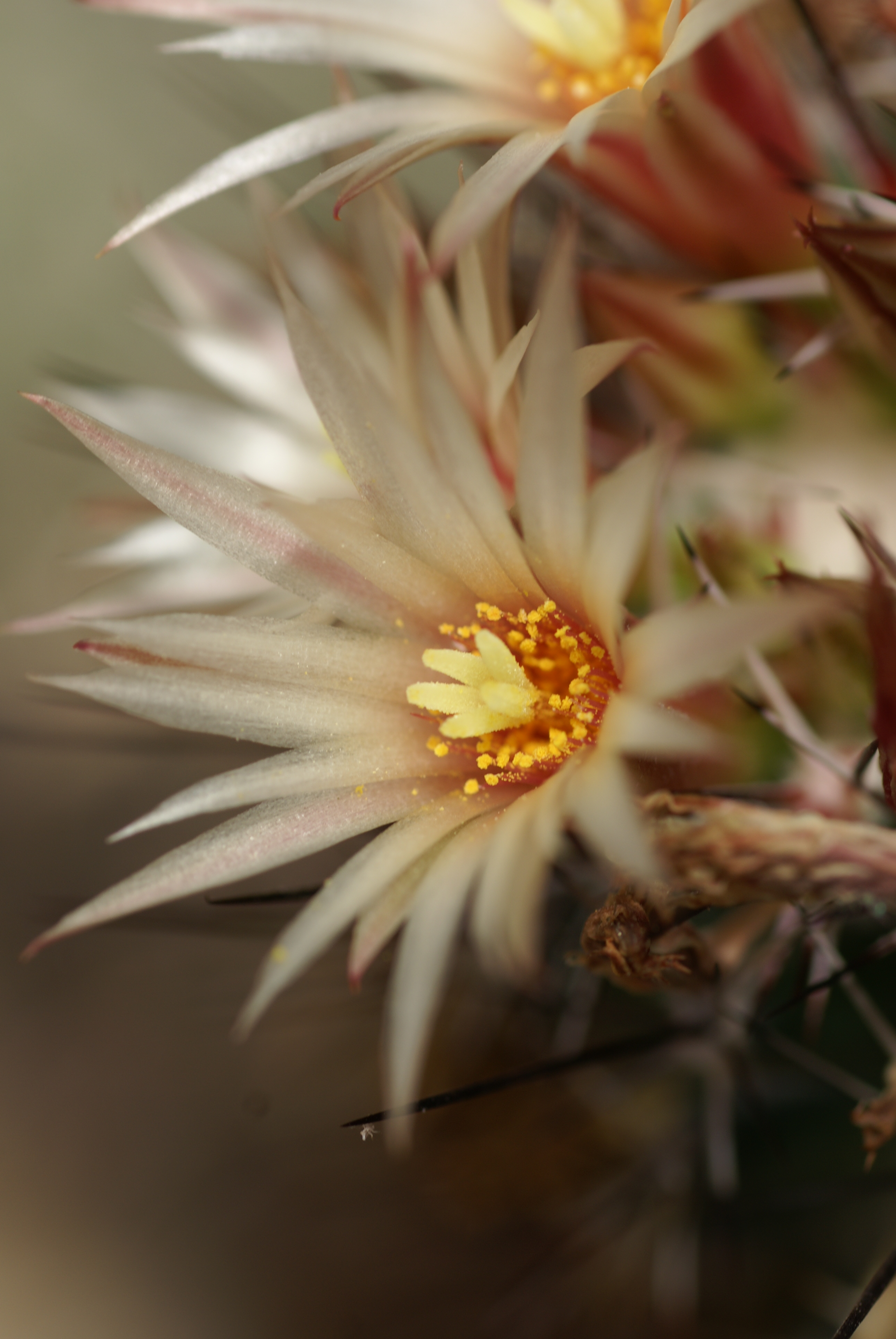 Plant species Coryphanta potosiana (the sticker says ...potosana) in Jardín Botánico Mora i Bravard, near Malaga, Spain